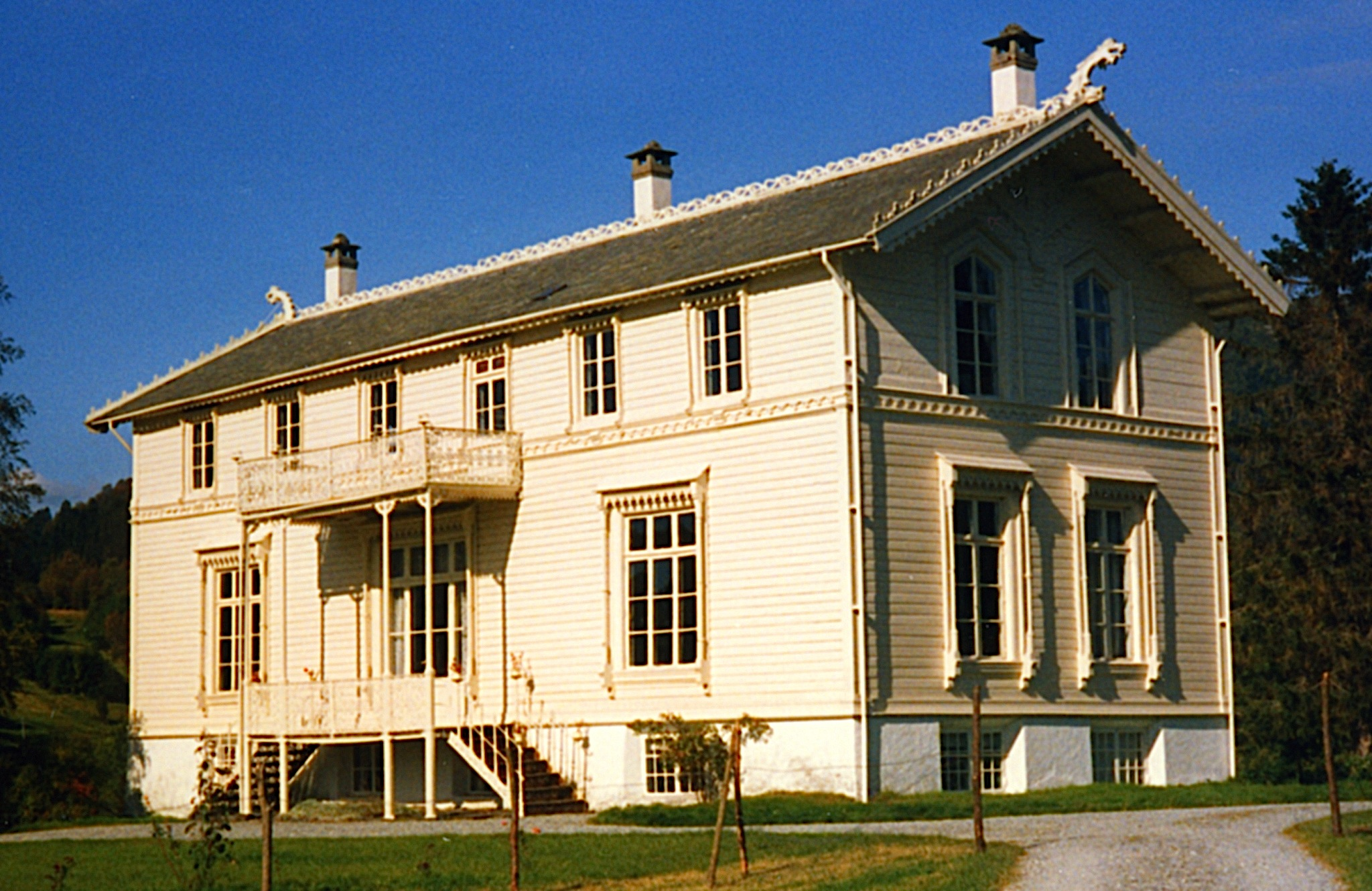 Ole Bull's House Valestrandsfossen, Architect: Georg Andreas Bull, Photo: Nina Aldin Thune